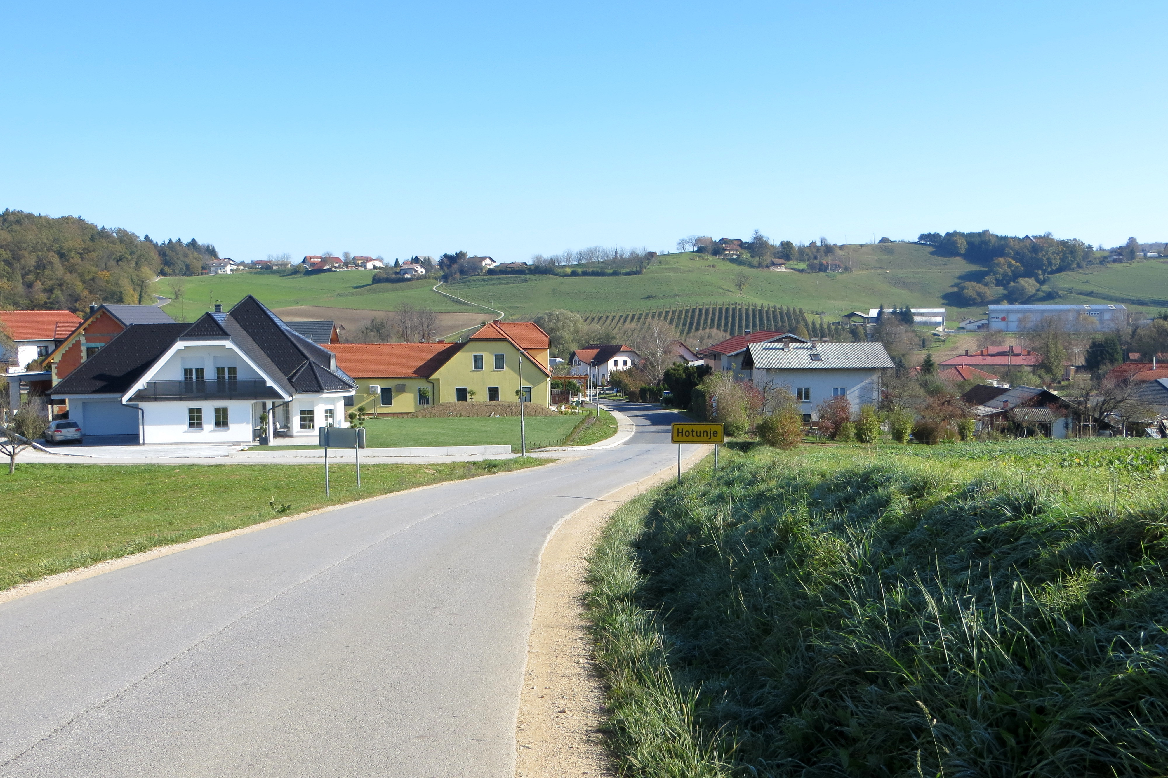 Hotunje, Municipality of Šentjur, Slovenia